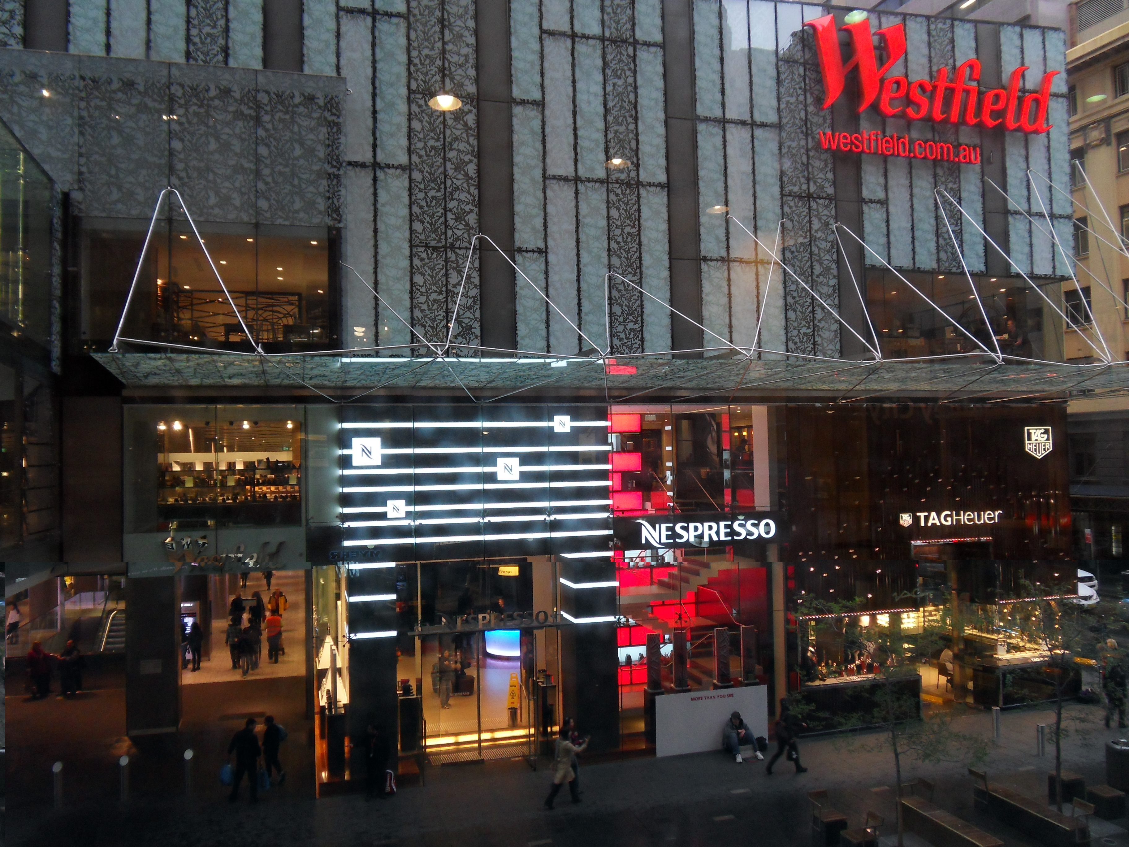 Front of Westfield Sydney, Pitt St Mall